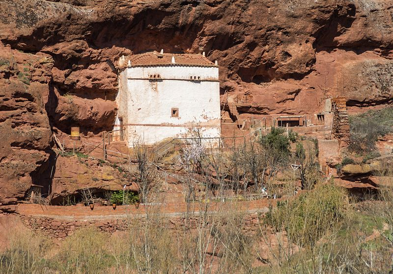 Casa sobre la roca